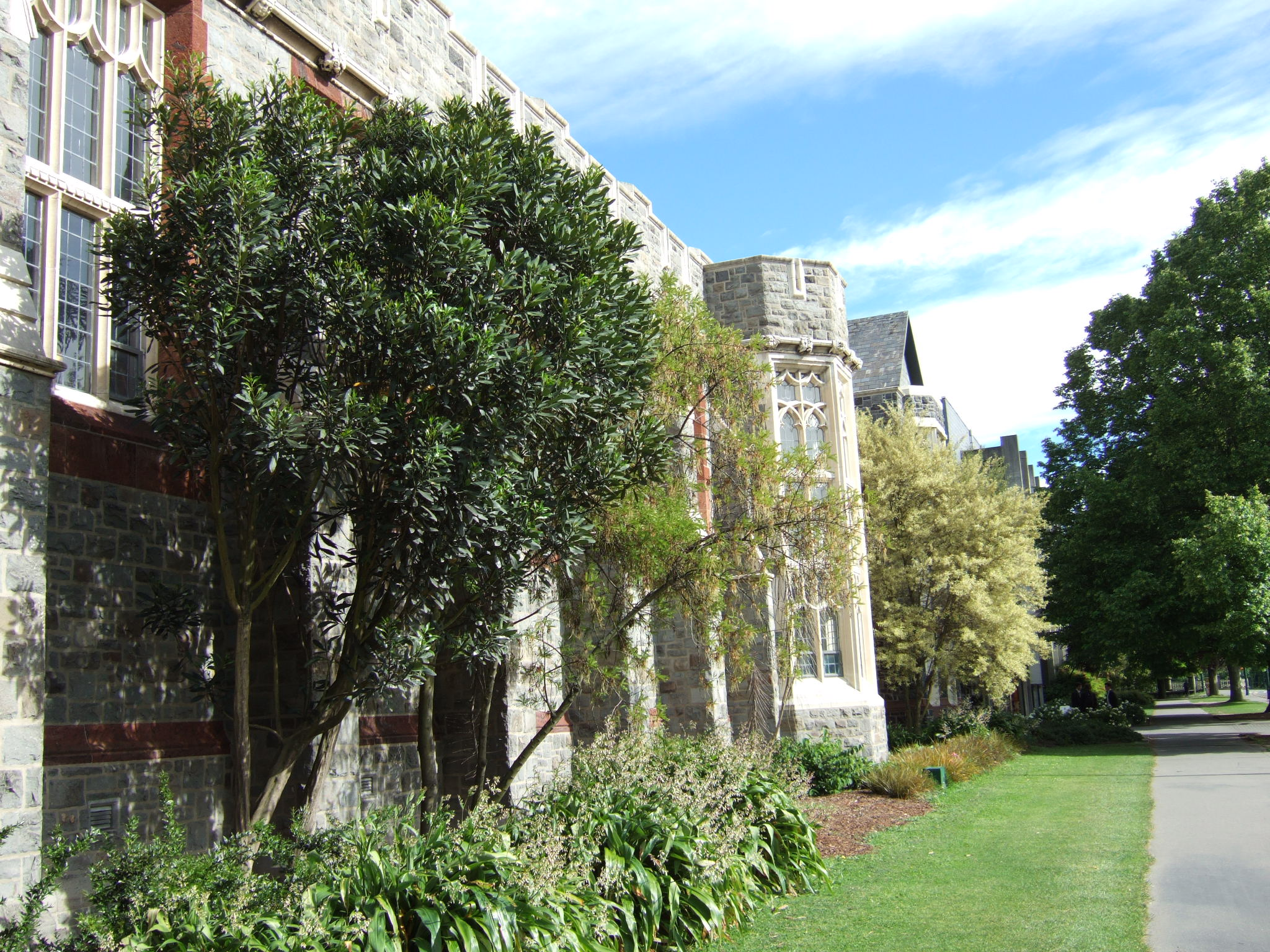 Christ's College Dining Hall, Christchurch, New Zealand. New Zealand Historic Places Trust Register number: 3276.